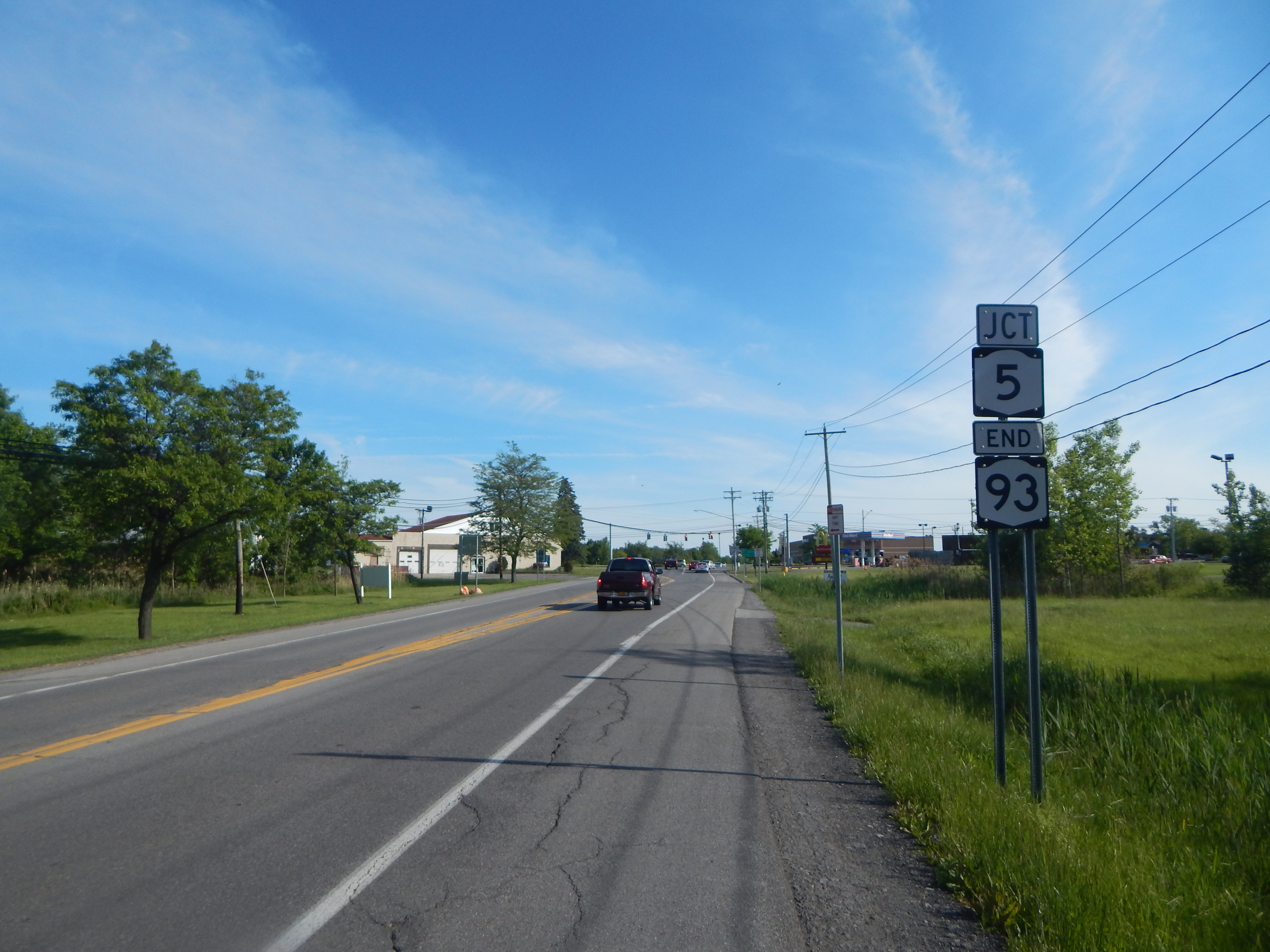 New York State Route 93 at the junction with Route 5 in Newstead, New York.